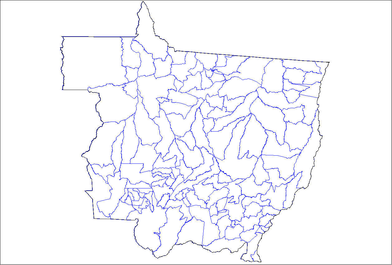 Map of the municipalities of the state of Mato Grosso, Brazil. Created by Rarelibra 21:45, 24 August 2006 (UTC) for public domain use. Created using MapInfo Professional v8.5 and various mapping resources.